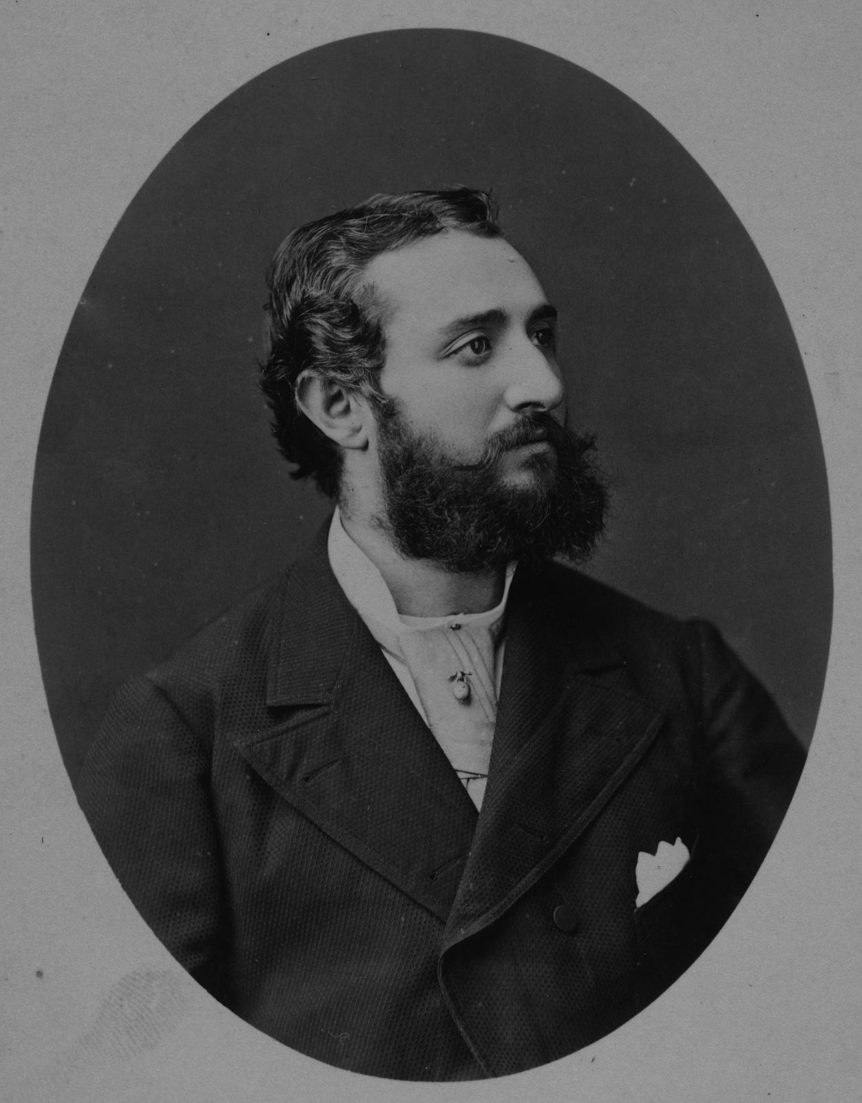 Alberto Castoldi